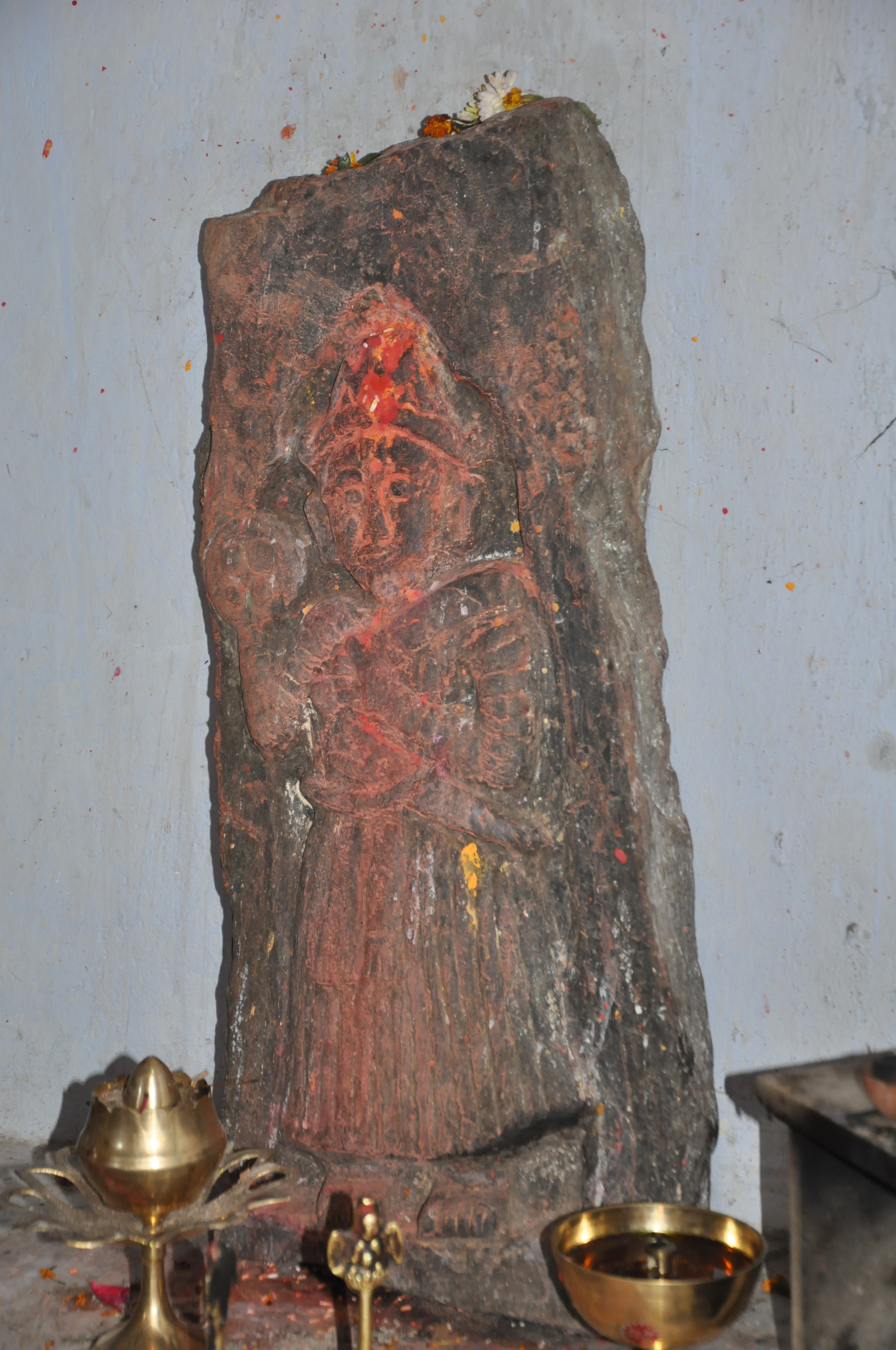 This temple is about 20 kms from Ranikhet (a hill town of Uttarakhand, India) in Gagas Binta Road